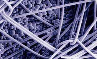 An electromicrograph shows the microencapsulated phase change materials in the insulation for cold-thwarting ski apparel